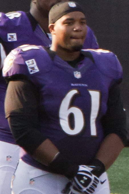 Cecil Newton at Ravens M&T Bank Stadium practice in August 2012